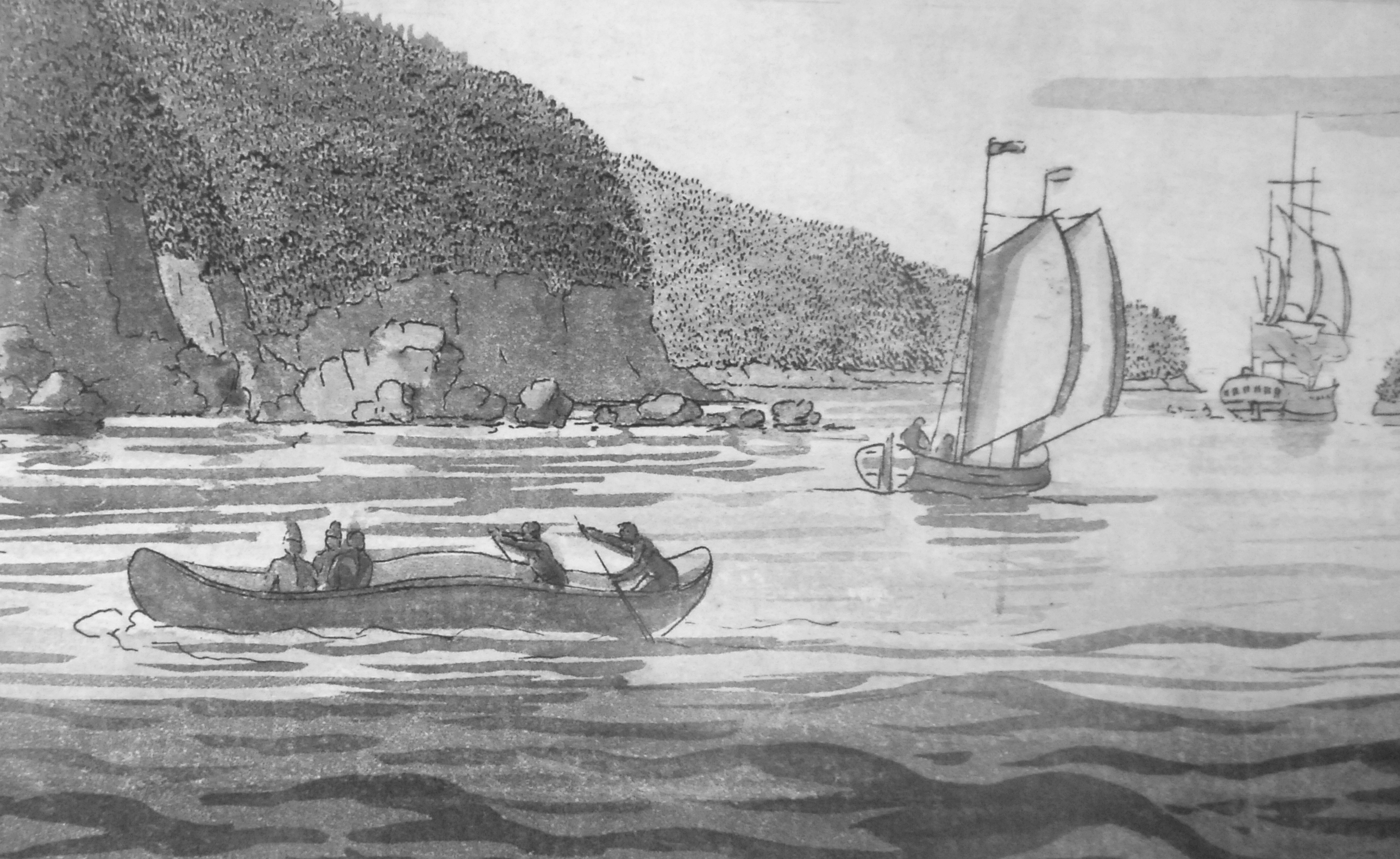 Detail of etching by J. F. W. Desbarres, "Grand Passage in the Bay Fundy on the Western Shore of Nova Scotia" published ca 1770 as part of the Atlantic Neptune. Image shows high-sided Mi'kmaq canoe and other vessels between present-day Brier Island and Long Island, Nova Scotia.